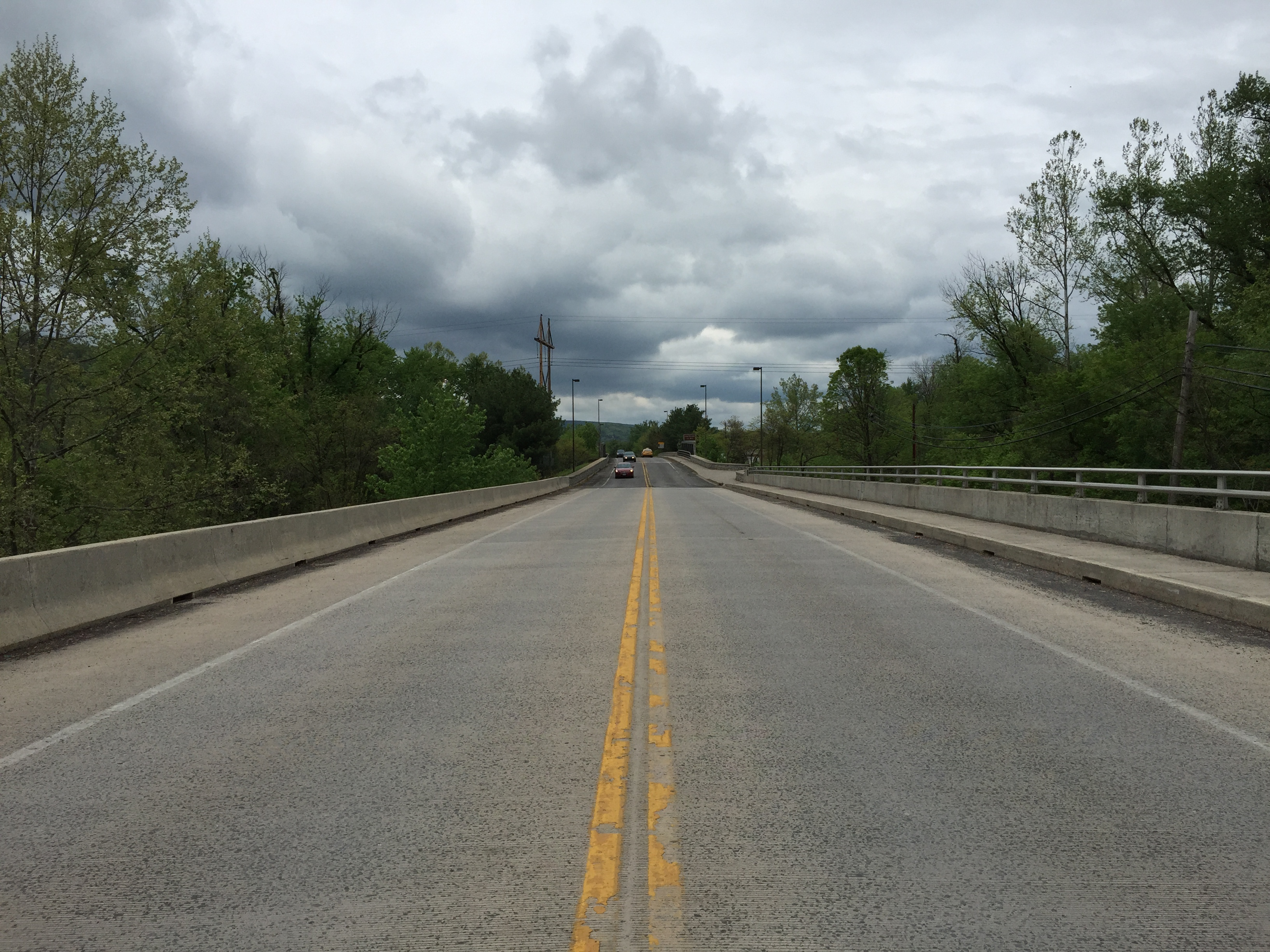 View north across the Canal Parkway Bridge (Maryland State Route 61) crossing the North Branch Potomac River from Wiley Ford, Mineral County, West Virginia to Cumberland, Allegany County, Maryland